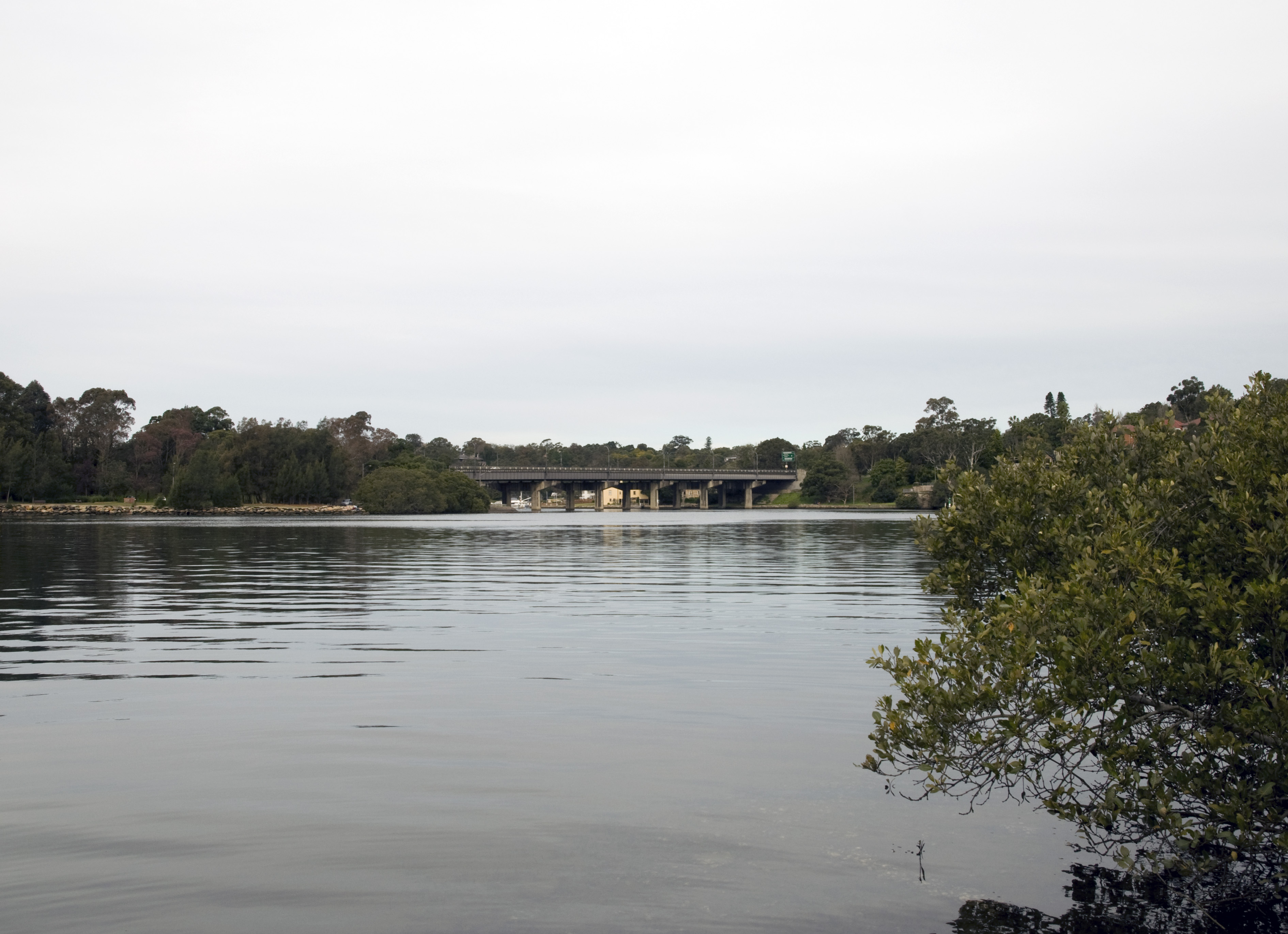 Photo of Fig Tree Bridge taken from Boronia Park